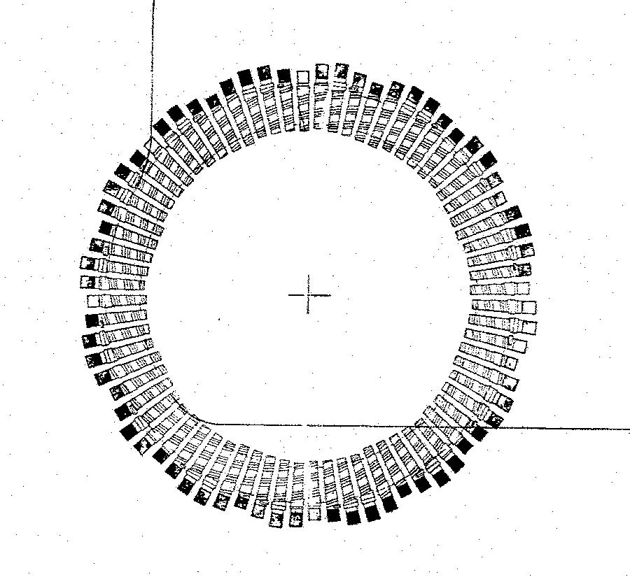 Accelerator sketch